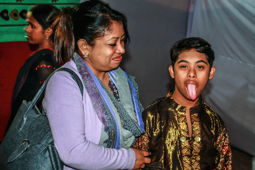 A cultural event of National Center for Special education, Mirpur-14, Dhaka, Bangladesh. This is a center for physical or psychological disable autistic, under department of social services.